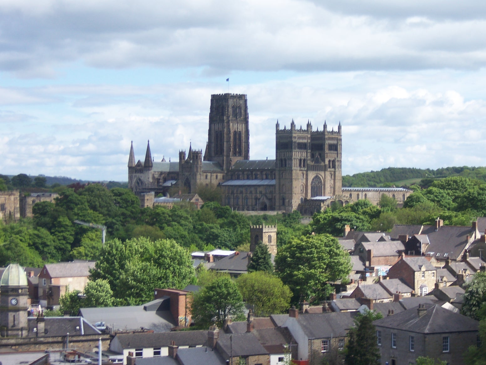 Durham Cathedral as seen from the rail station of Durham, England own work; photo taken on 28 May 2006